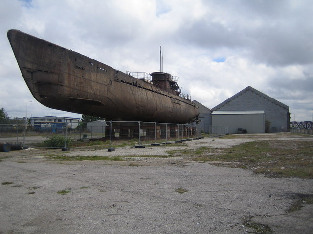 Wallasey: Mortar Mill Quay & U-Boat U534 So, just how did a German U-Boat end up on a quay in Wallasey? Well, the submarine was discovered in August 1986 on the seabed in the Kattegat between Denmark and Sweden, having been sunk by depth charges from an RAF aircraft on 5 May 1945, just hours before the German surrender. It was thought that she may have been carrying a fortune in gold, being transported to Japan or South America in the last days of the Reich. Because all the crew escaped, the submarine was not construed as a war grave, and a wealthy Danish publisher, Karsten Rae, funded a recovery operation. On 23 August 1993 the submarine was raised, but nothing of monetary value was found. Rae decided that Merseyside would be the ideal permanent home for the submarine, given that it was the main destination port for Atlantic convoys during the Second World War. It subsequently became part of the Historic Warships collection until the Trust running the exhibition went into liquidation in January 2006. Since the previous photographs of the submarine were posted on this site the boat has been moved some 200 metres to the east along the dock at Mortar Mill Quay, as it was in the way of the redevelopment of the former corn warehouses. Its fate remains uncertain.